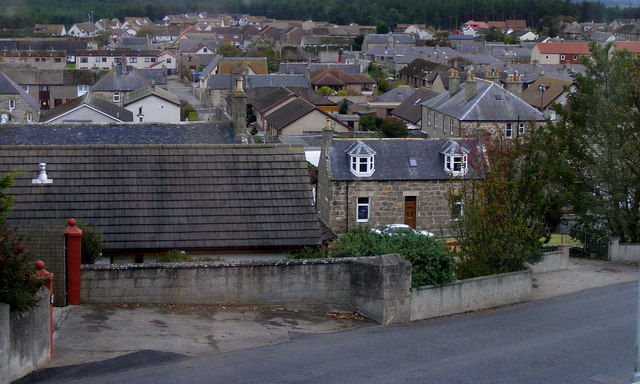 Dwellings at Lossiemouth Taken from Little Stint, School Brae.